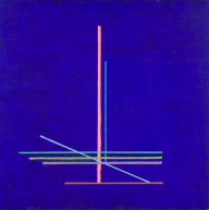 "Bez tytułu" (1985) by Henryk Stażewski, from the permanent collection of Zachęta National Gallery of Art (Warsaw, Poland)